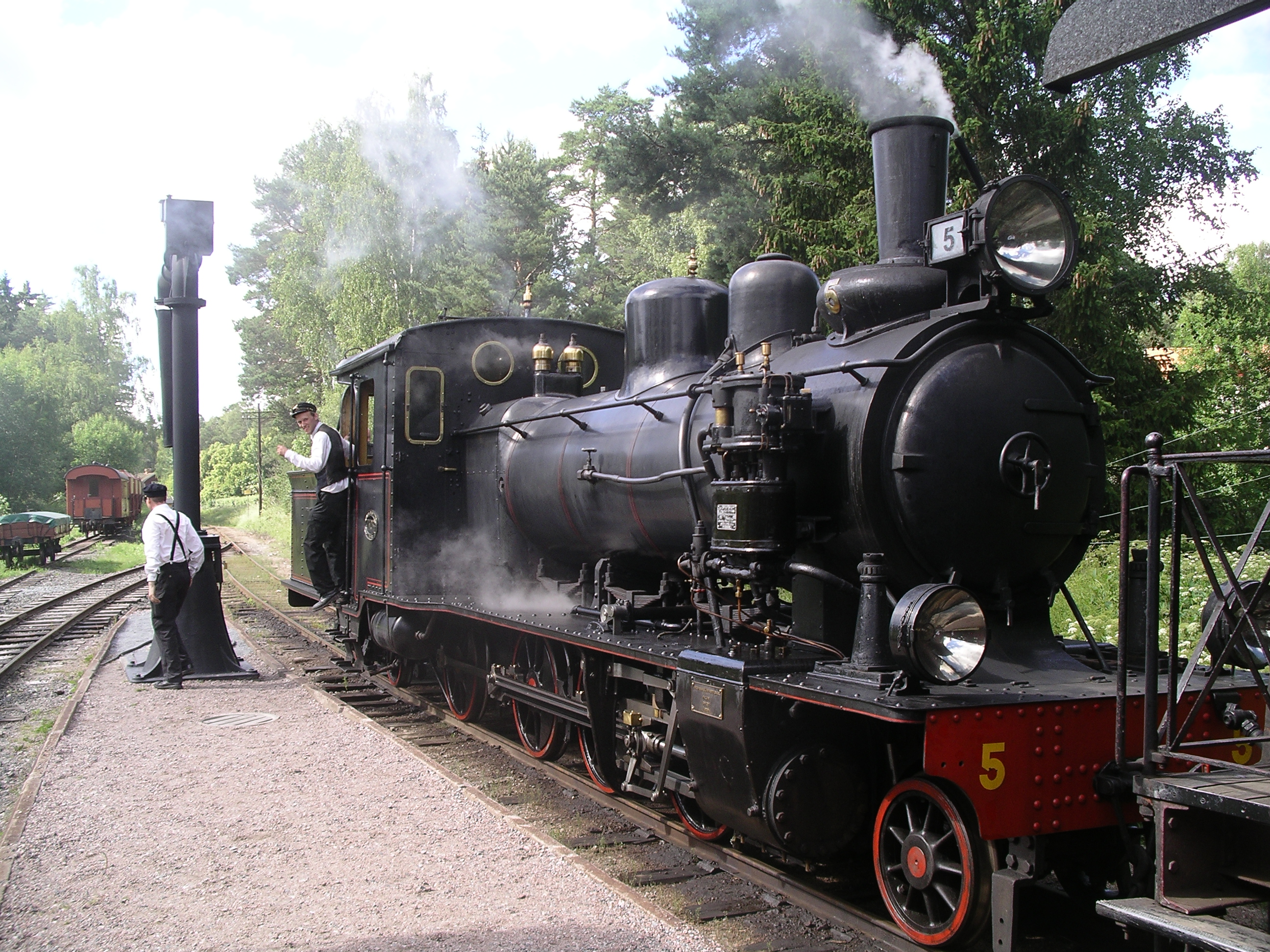 Steam-engine BLJ 5 Thor in Marielund, Uppsala County, Sweden